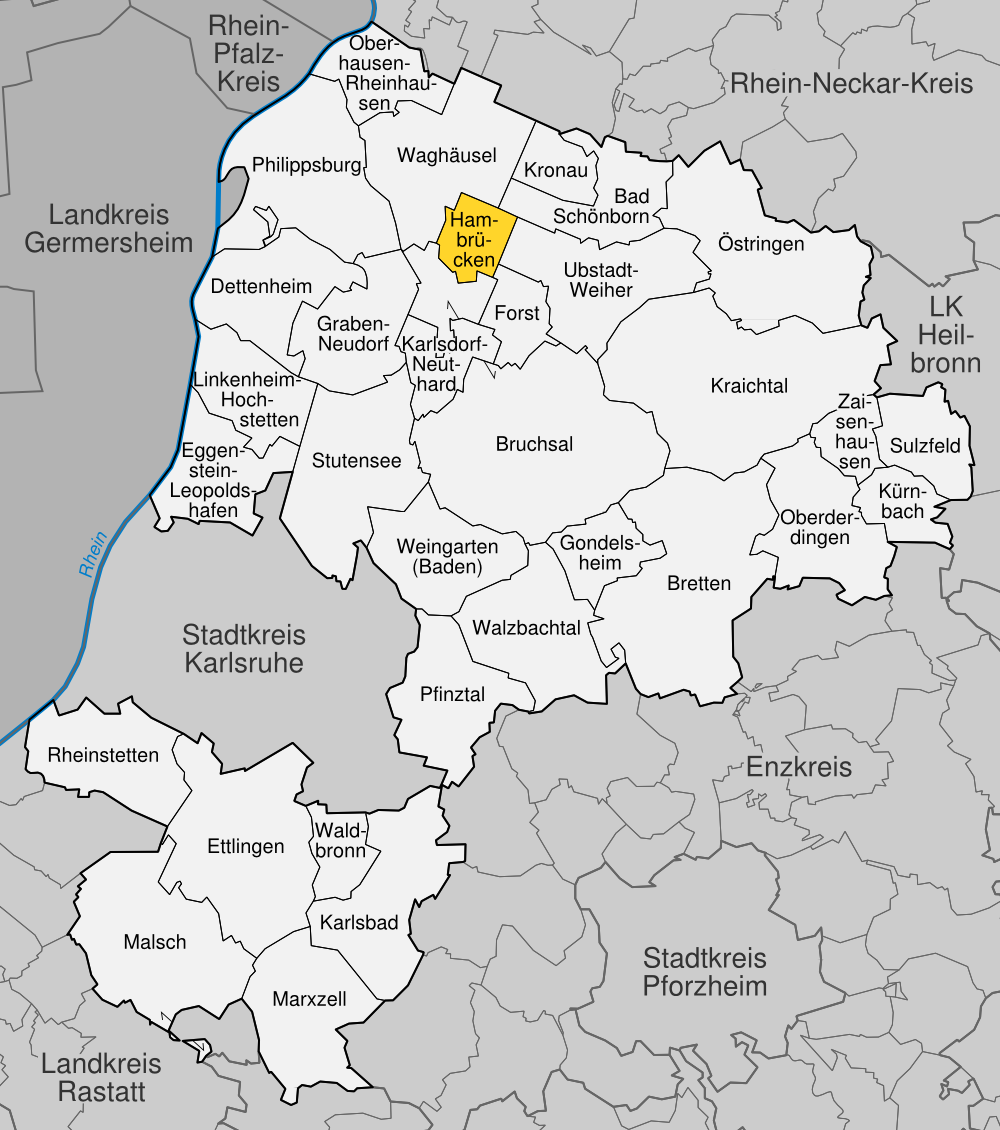 position of Hambrücken within distict of Karlsruhe, Baden-Württemberg, Germany